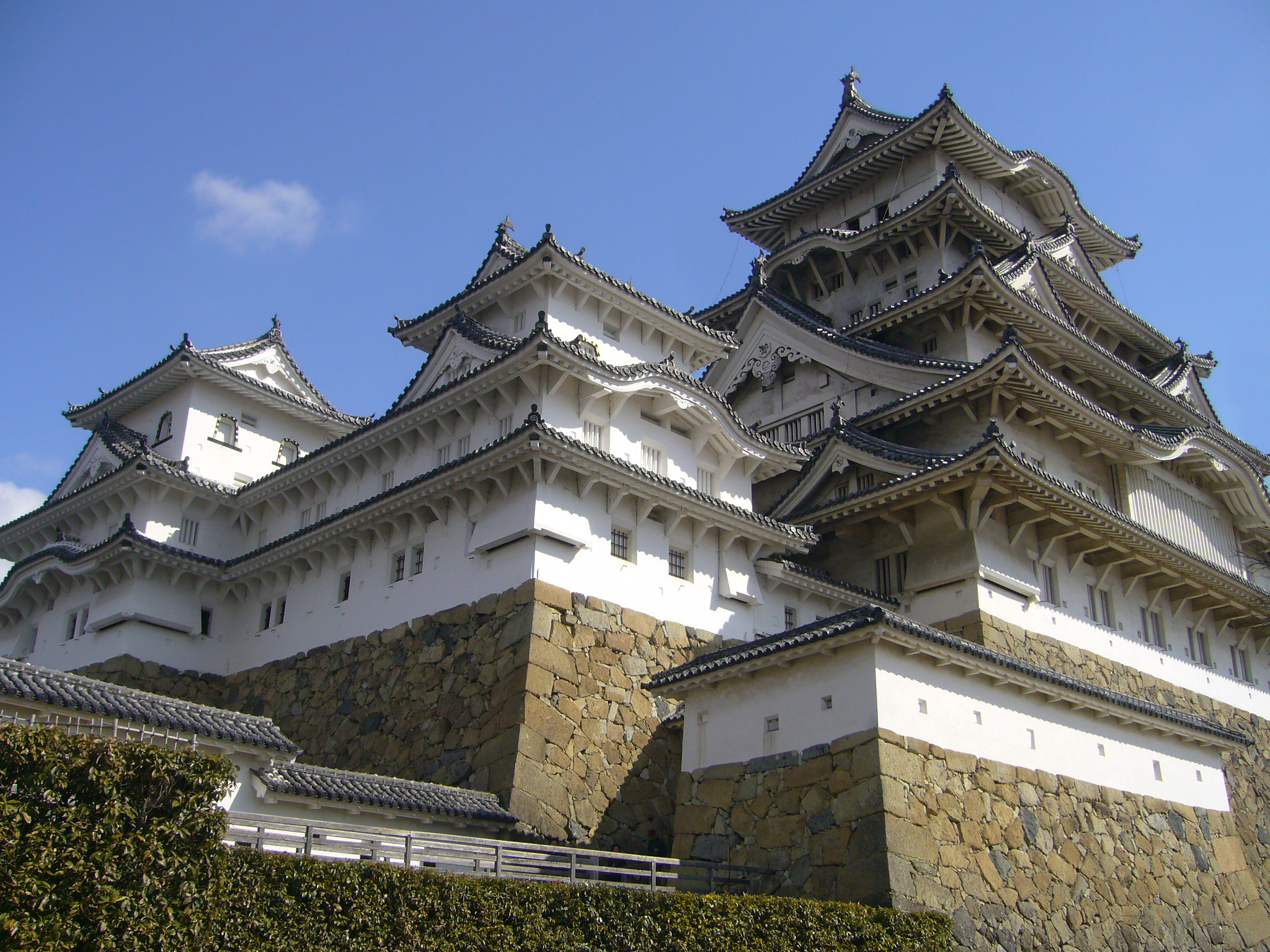 Himeji Castle in Himeji, Hyogo prefecture, Japan